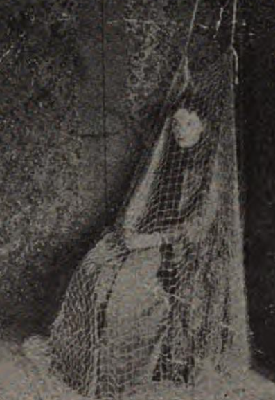 Madame d'Esperance during a seance.